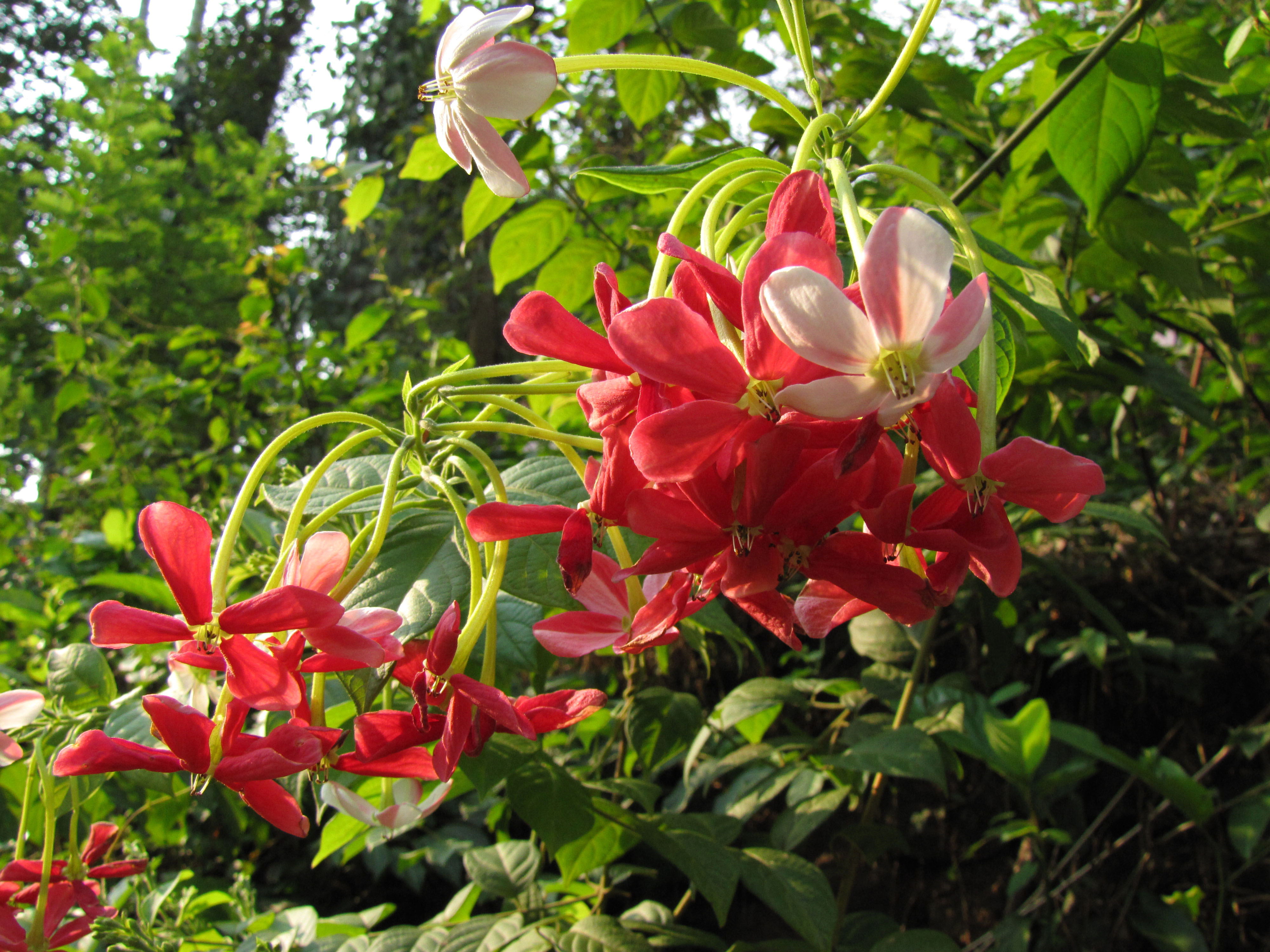 Bunch of flowers of Chinese honeysuckle or Rangoon creeper (Combretum indicum)